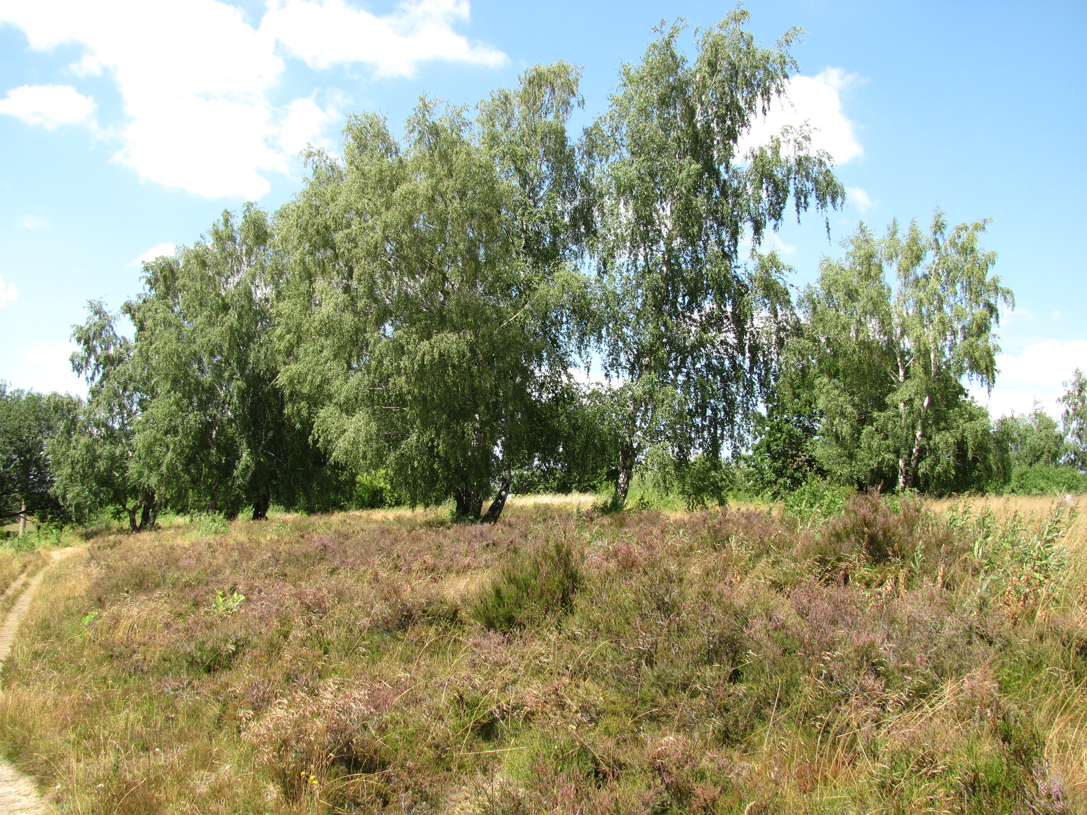 Nature reserve "Schwarze Heide", Diekholzen, Germany